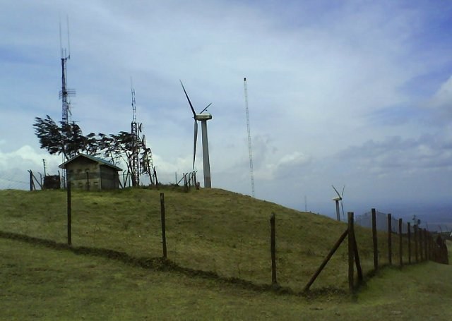 Part of KenGen's Ngong Hills Wind Farm